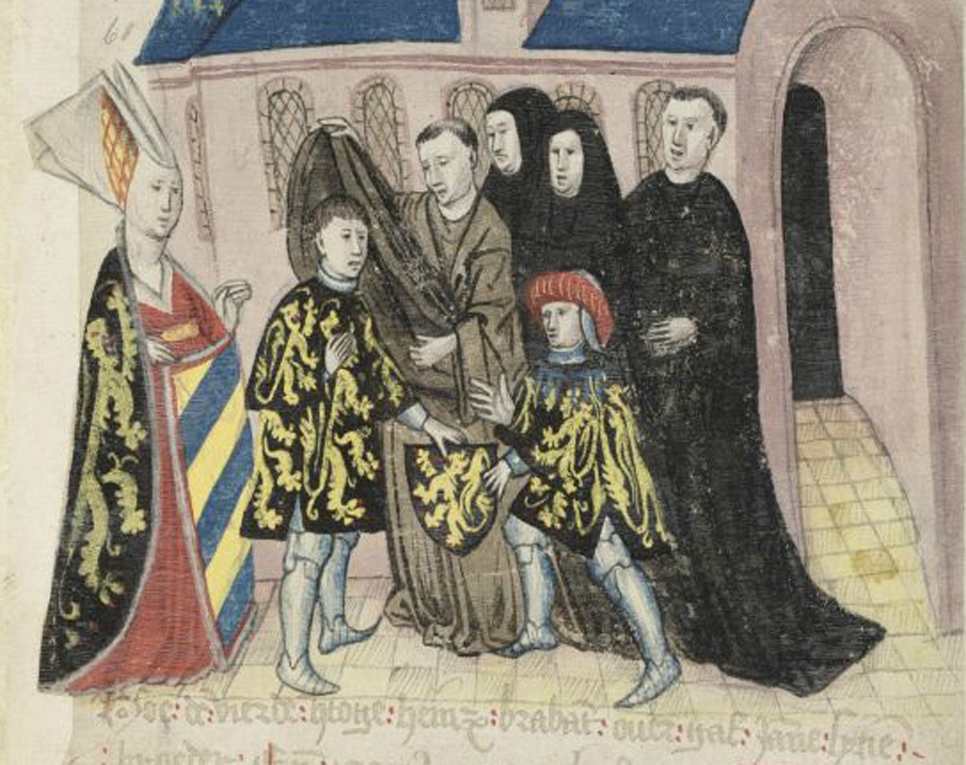 Replacement of Henry IV with John I by their mother Adelaide of Burgundy